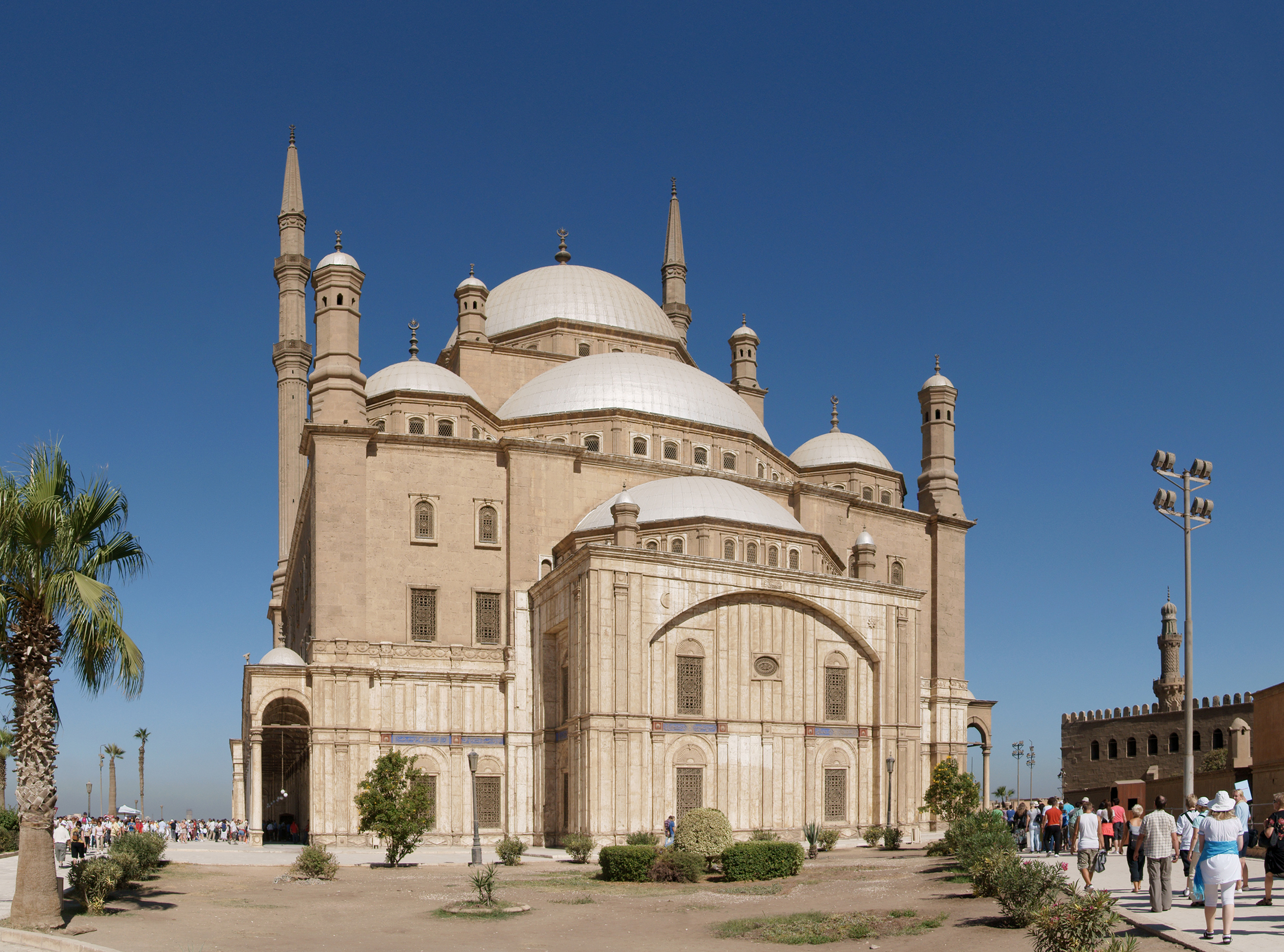 Muhammad Ali Mosque in Cairo Citadel.